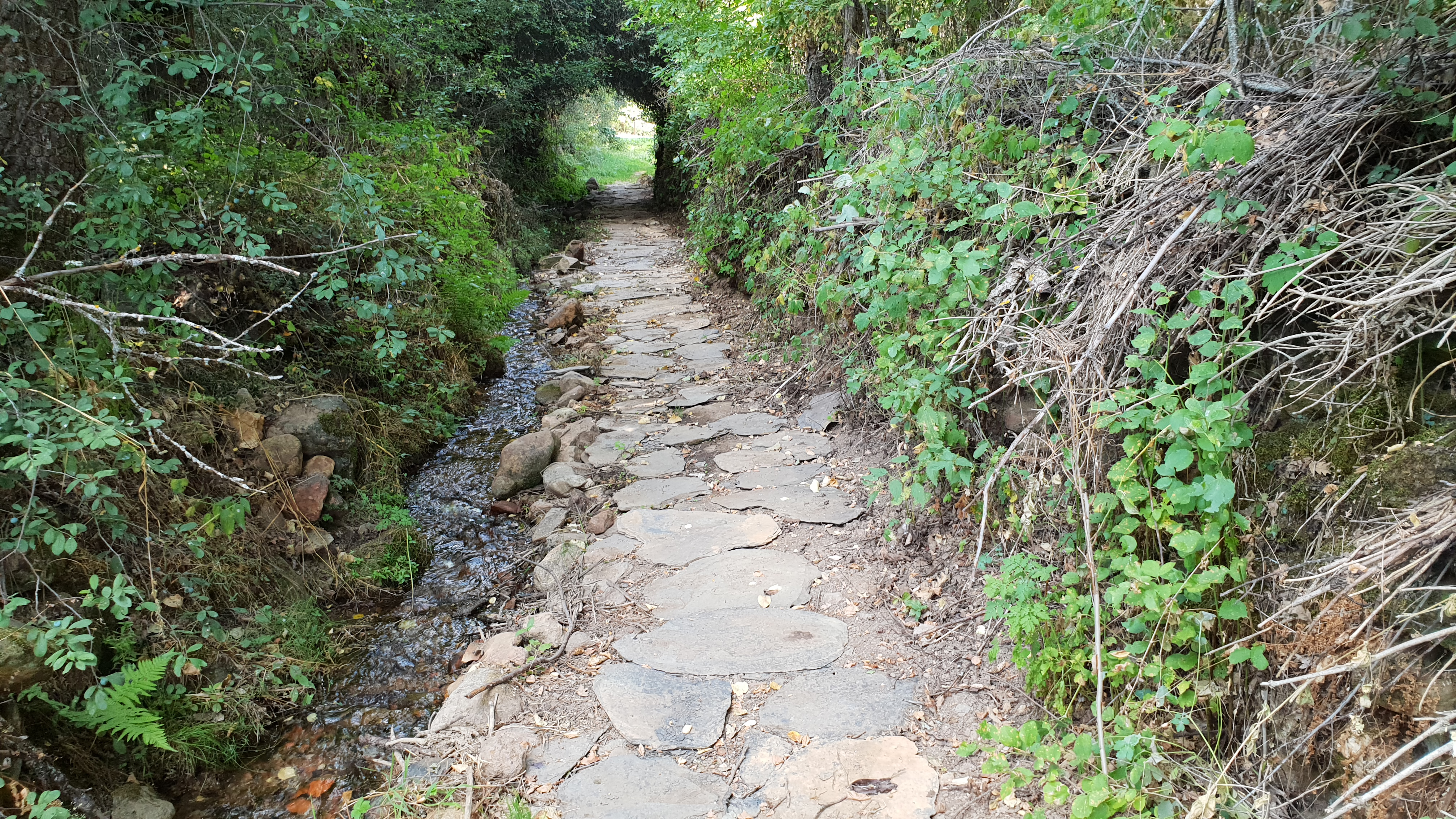 El Cañal de Valdavido